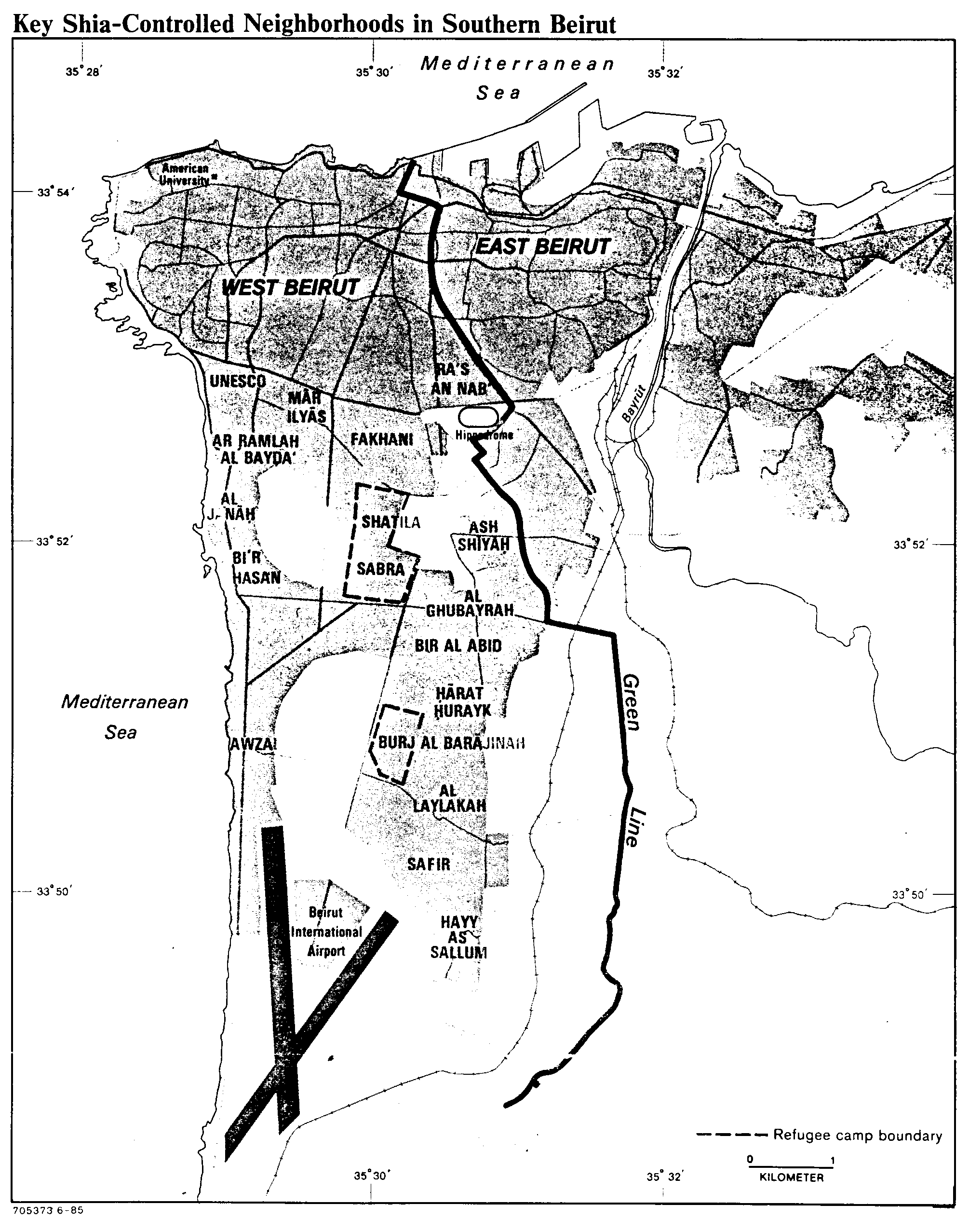 Key Shia-Controlled Neighborhoods in Southern Beirut, August 4, 1986.